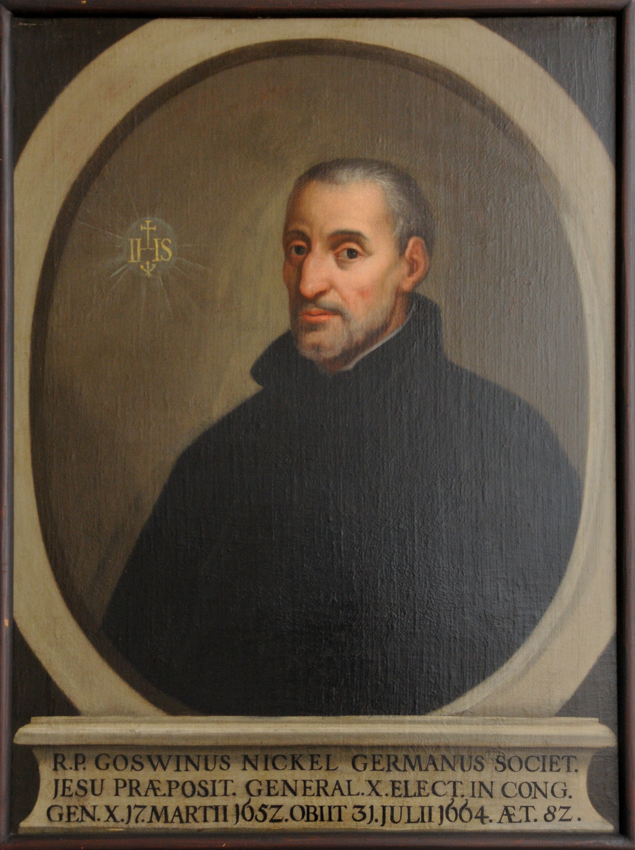 Portrait of Goswinus Nickel S.I., in the government building of the canton of Lucerne